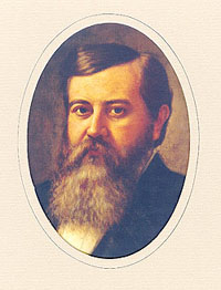 Richard B. Hubbard, 16th Governor of the State of Texas.